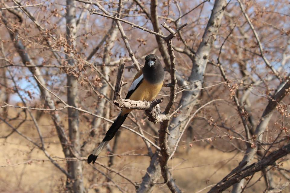 Picture of a Bird captured during my recent visit to Ranthambhore Tiger reserve in India